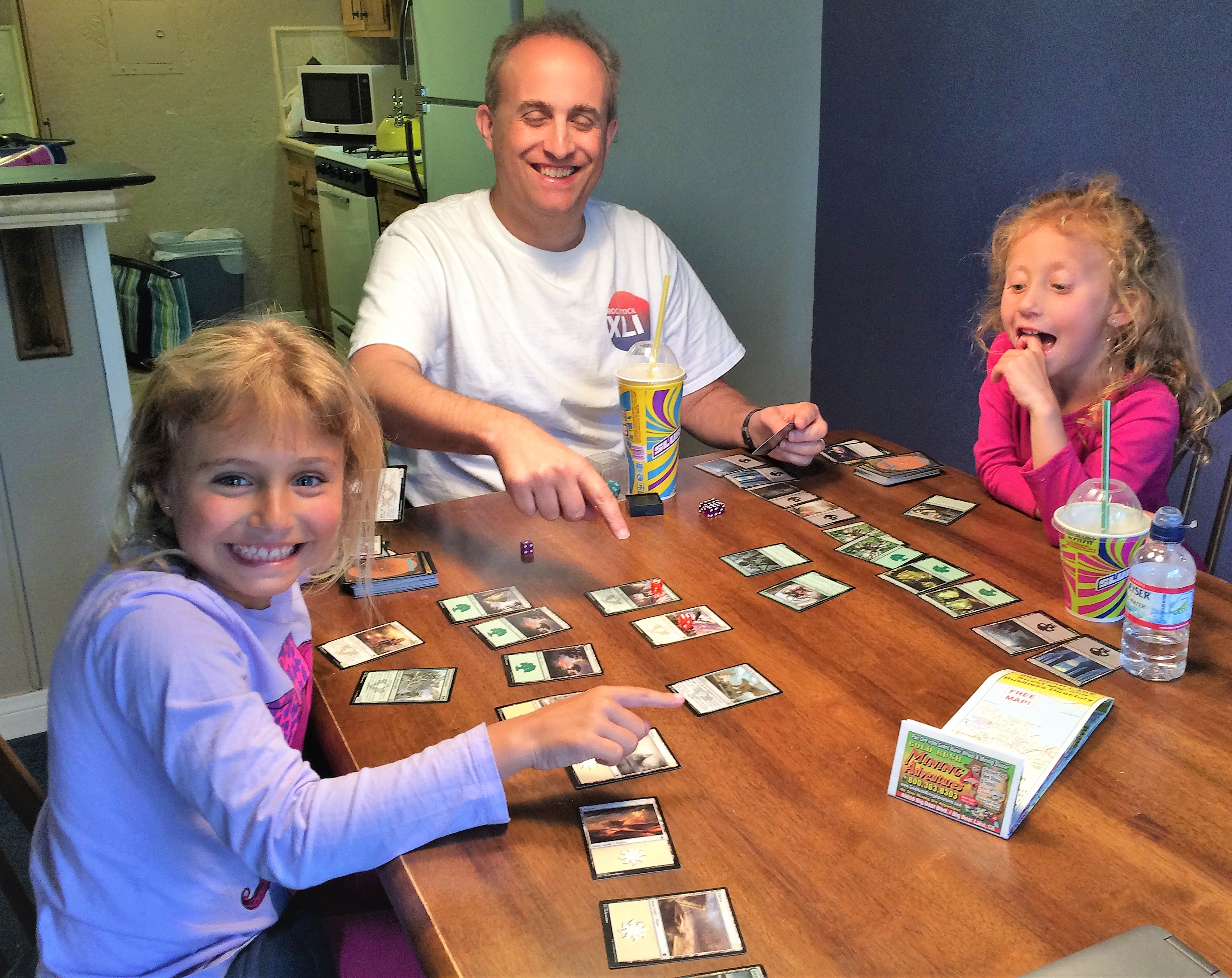 Left to right: Sadie, Adam, and Dana Fischer playing "Magic: the Gathering" in 2016.